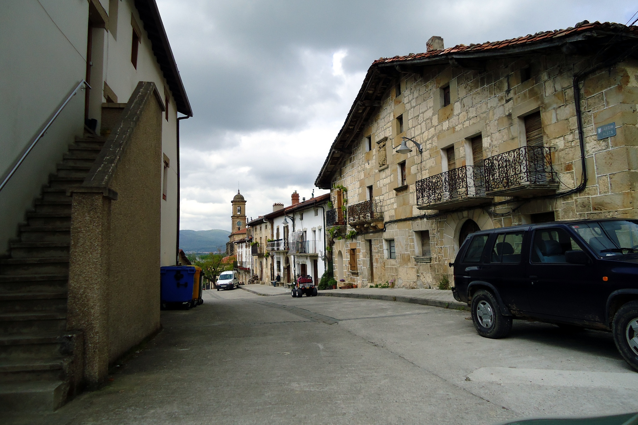 Bakaiku village (Sakana, Navarre)